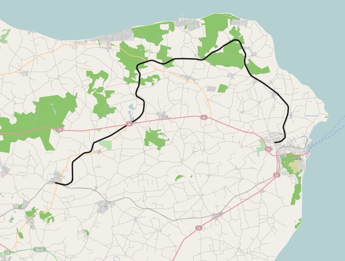 Railway line Ryomgård - Grenaa